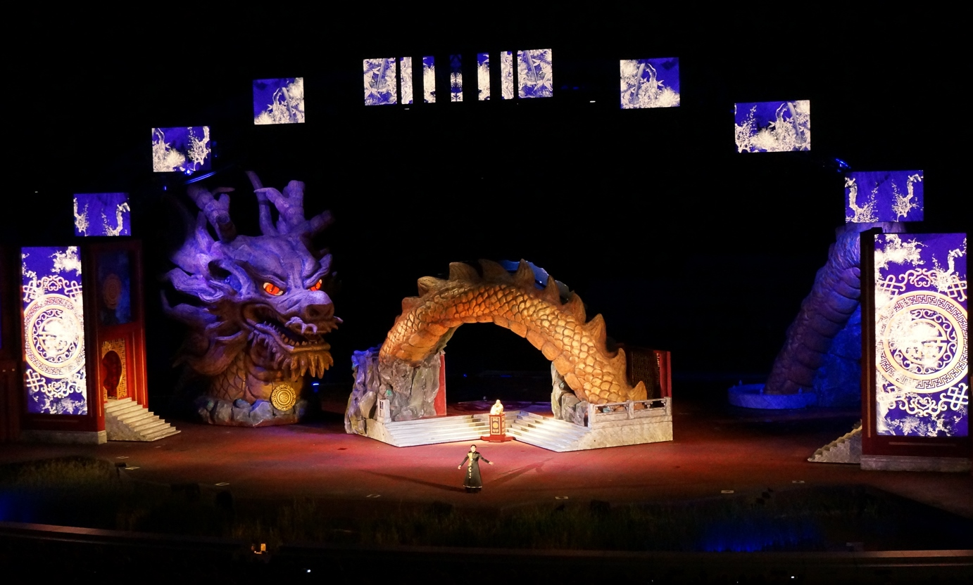 Stage design 2019 Mörbisch am See, Burgenland, Austria, EU, "Land of Smiles", operetta by Franz Lehar